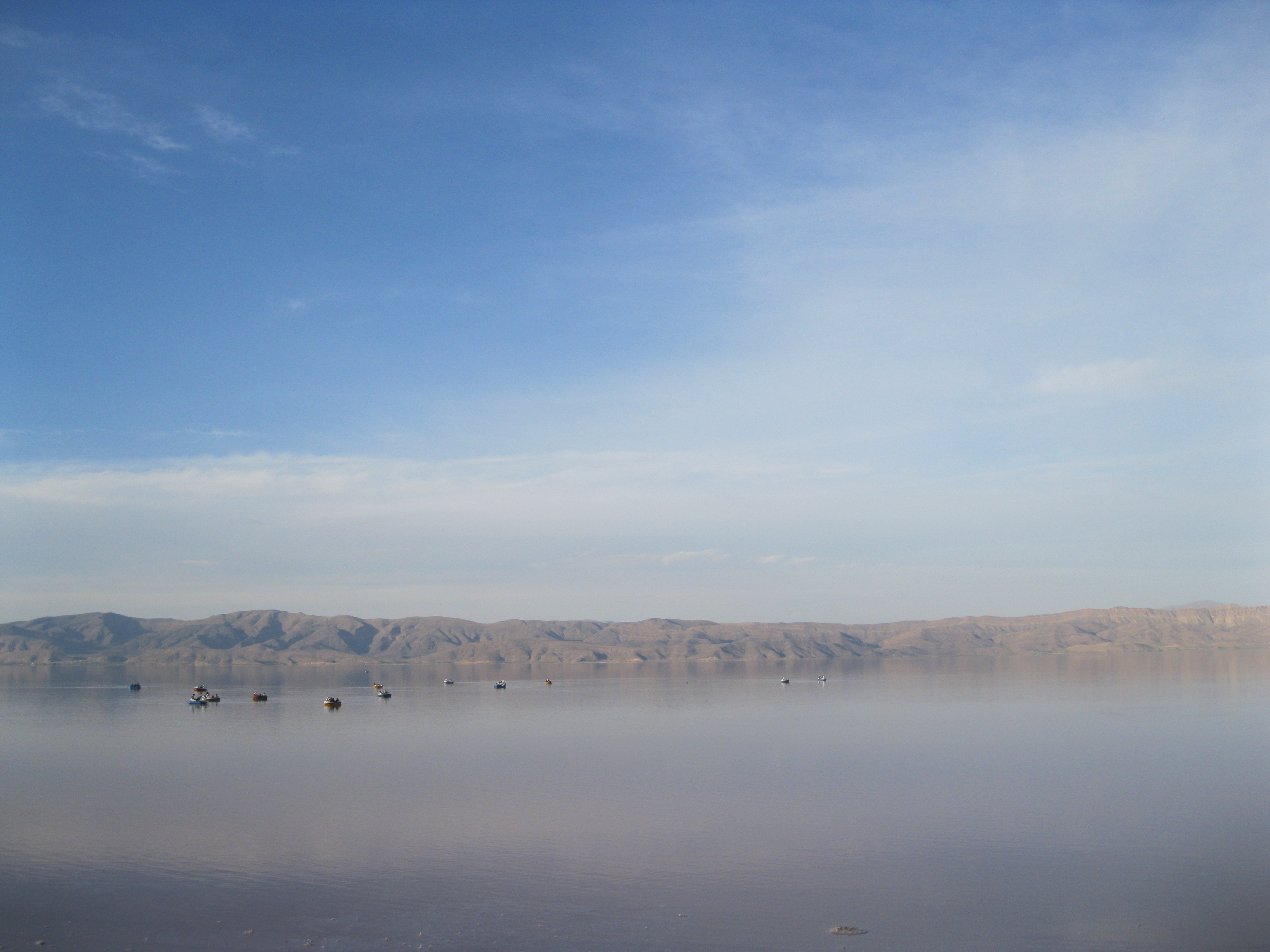 Maharloo lake, Shiraz-Iran